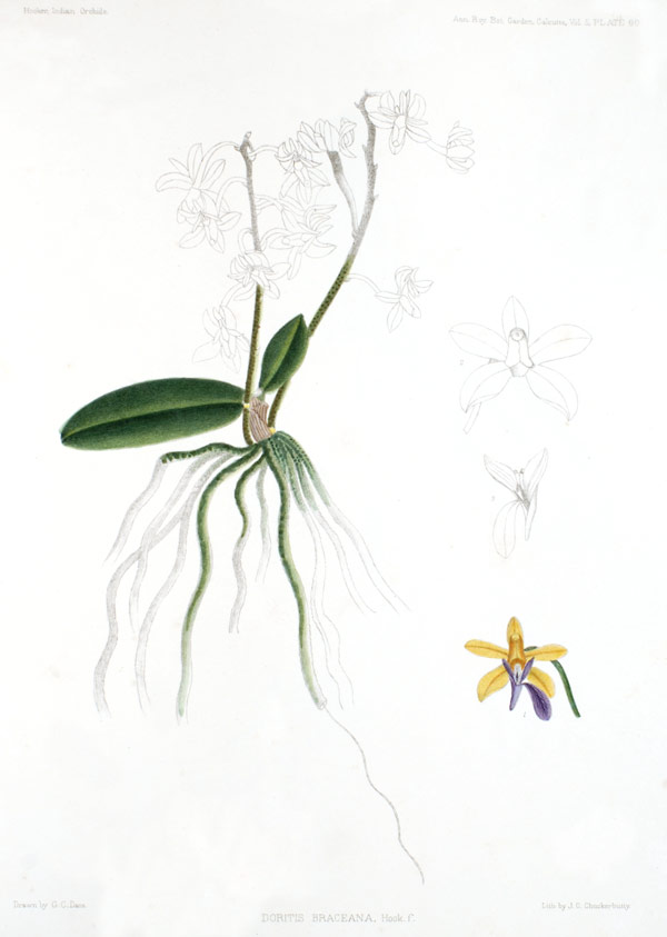 Phalaenopsis taenialis (as synonym Doritis braceana)